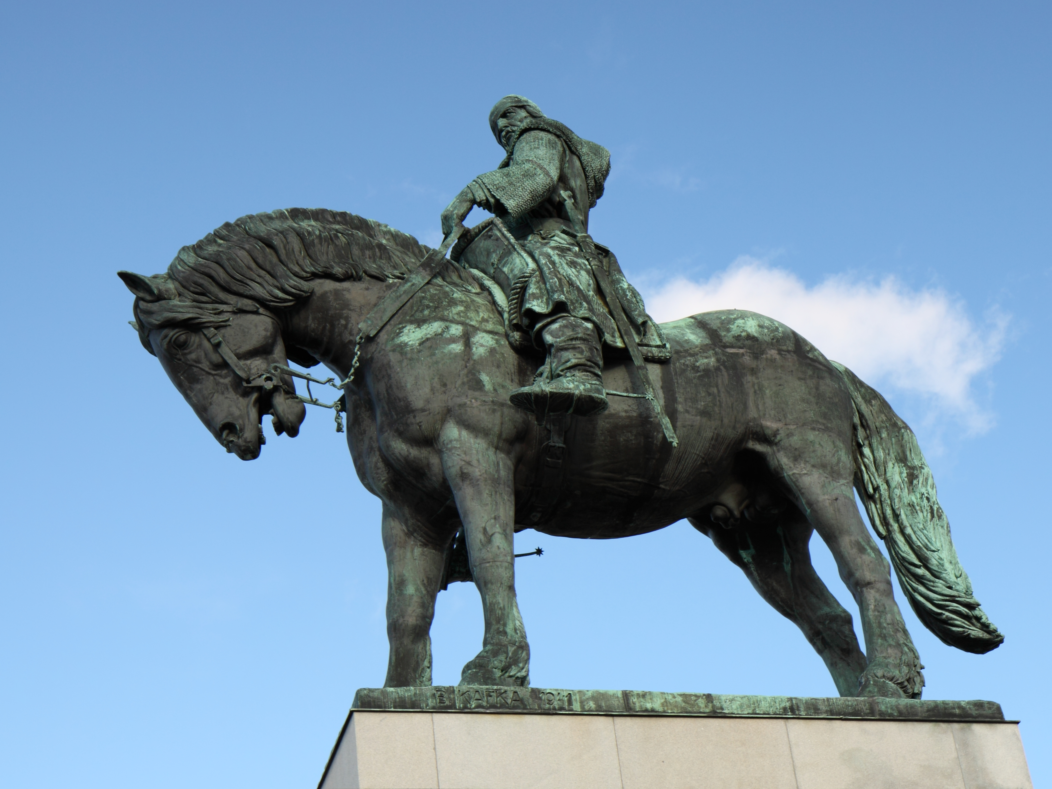 Statue of Jan Žižka at Vítkov Hill